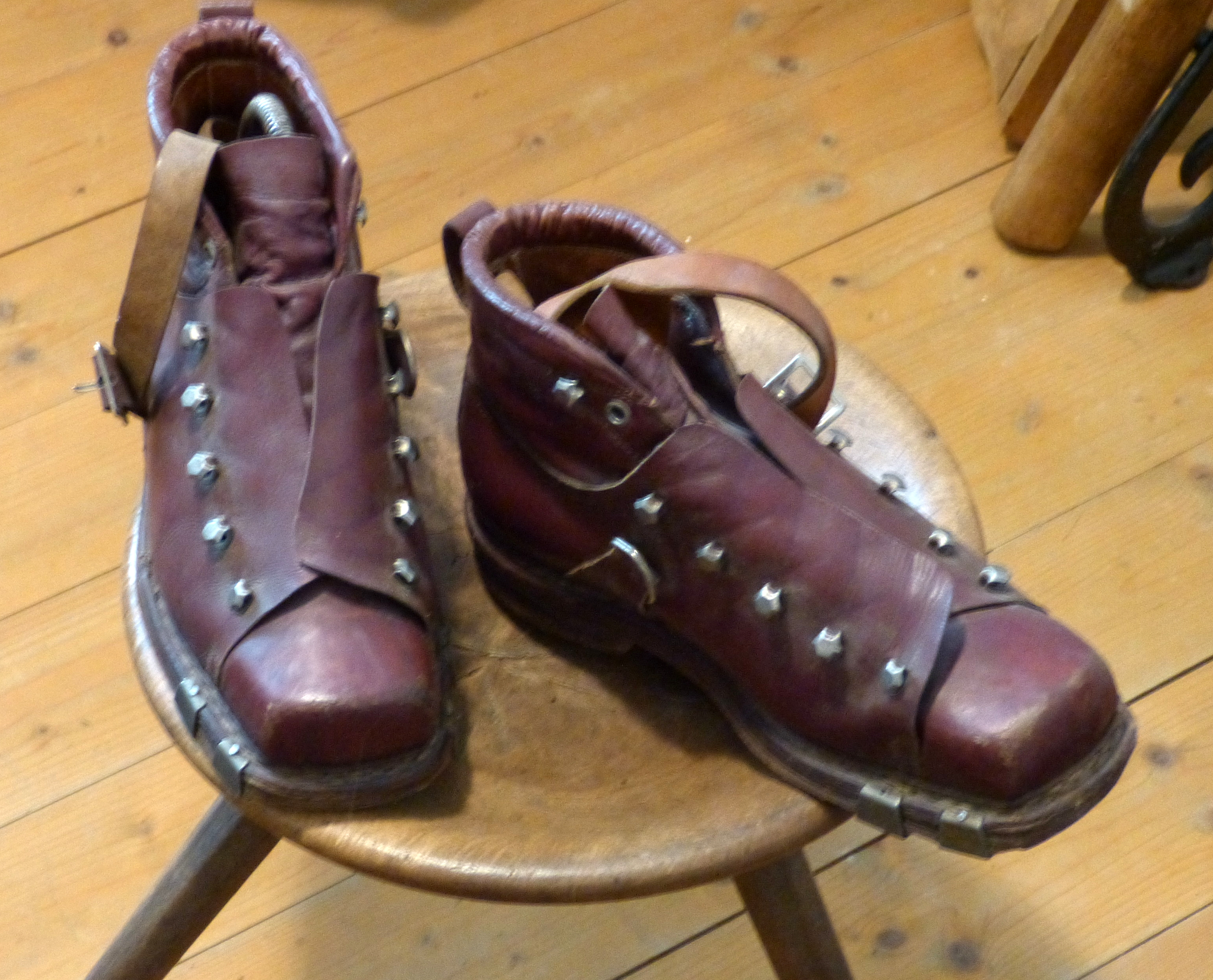 Bad Goisern ( Upper Austria ). Local museum: Shoemaking workshop for the production of "Goiserer" shoes - "Goiserer" shoes.